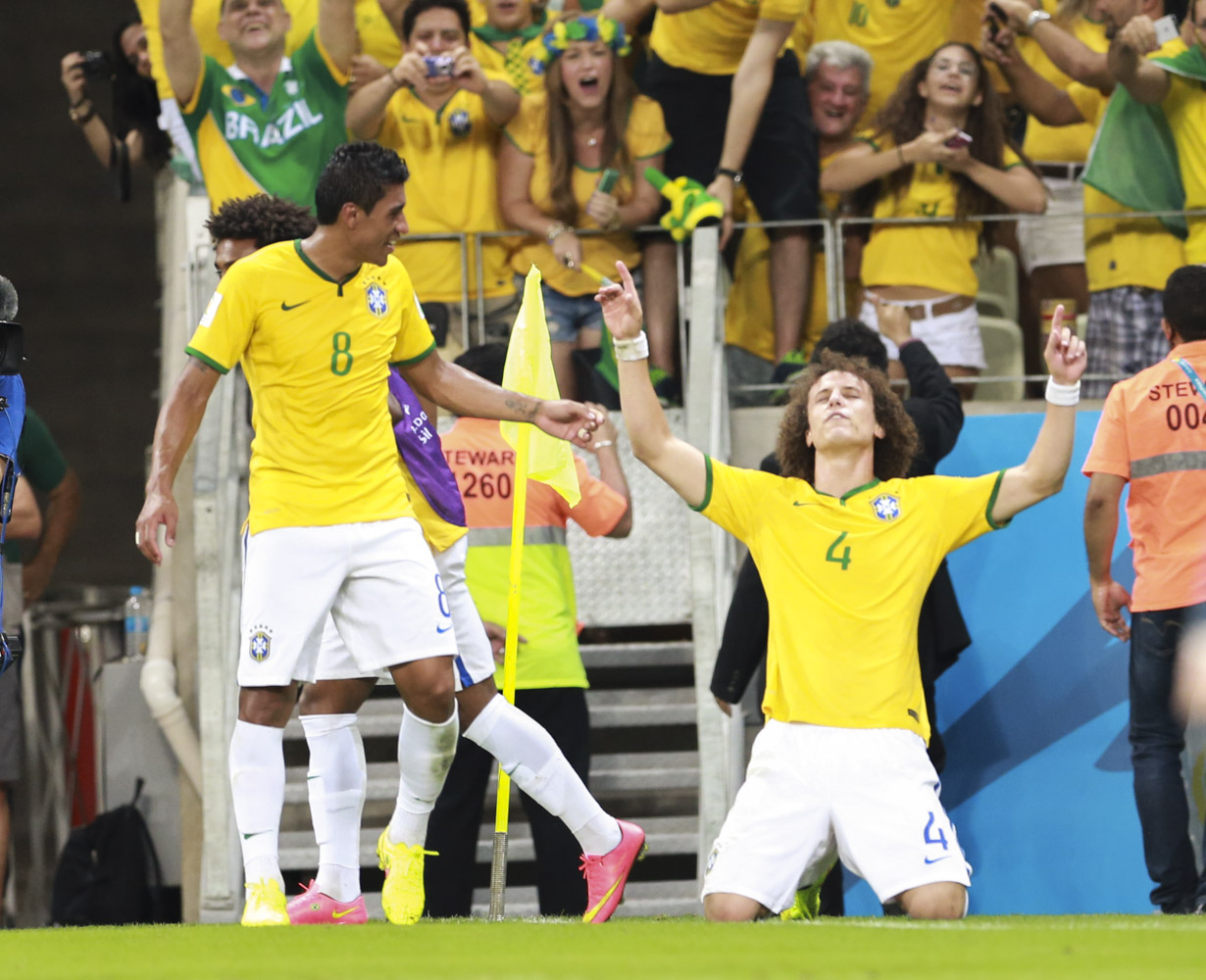 Brazil and Colombia match at the FIFA World Cup 2014-07-04